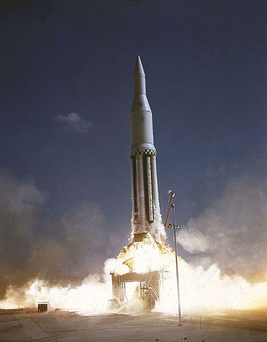 The second flight of the Saturn I vehicle, the SA-2, was successfully launched from Cape Canaveral, Florida on April 15, 1962. This vehicle had a secondary mission. After the first stage shutoff, at a 65-mile altitude, the water-filled upper stage was exploded, dumping 95 tons of water in the upper atmosphere. The resulting massive ice cloud rose to a height of 90 miles. The experiment, called Project Highwater, was intended to investigate the effects on the ionosphere of the sudden release of such a great volume of water.